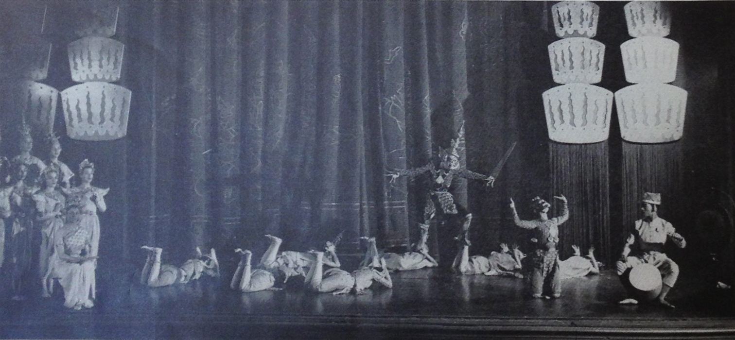 "Small House of Uncle Thomas" scene, from 1951 souvenir program for The King and I. Lacks any copyright notice, so it is no longer under copyright. Image can be found here